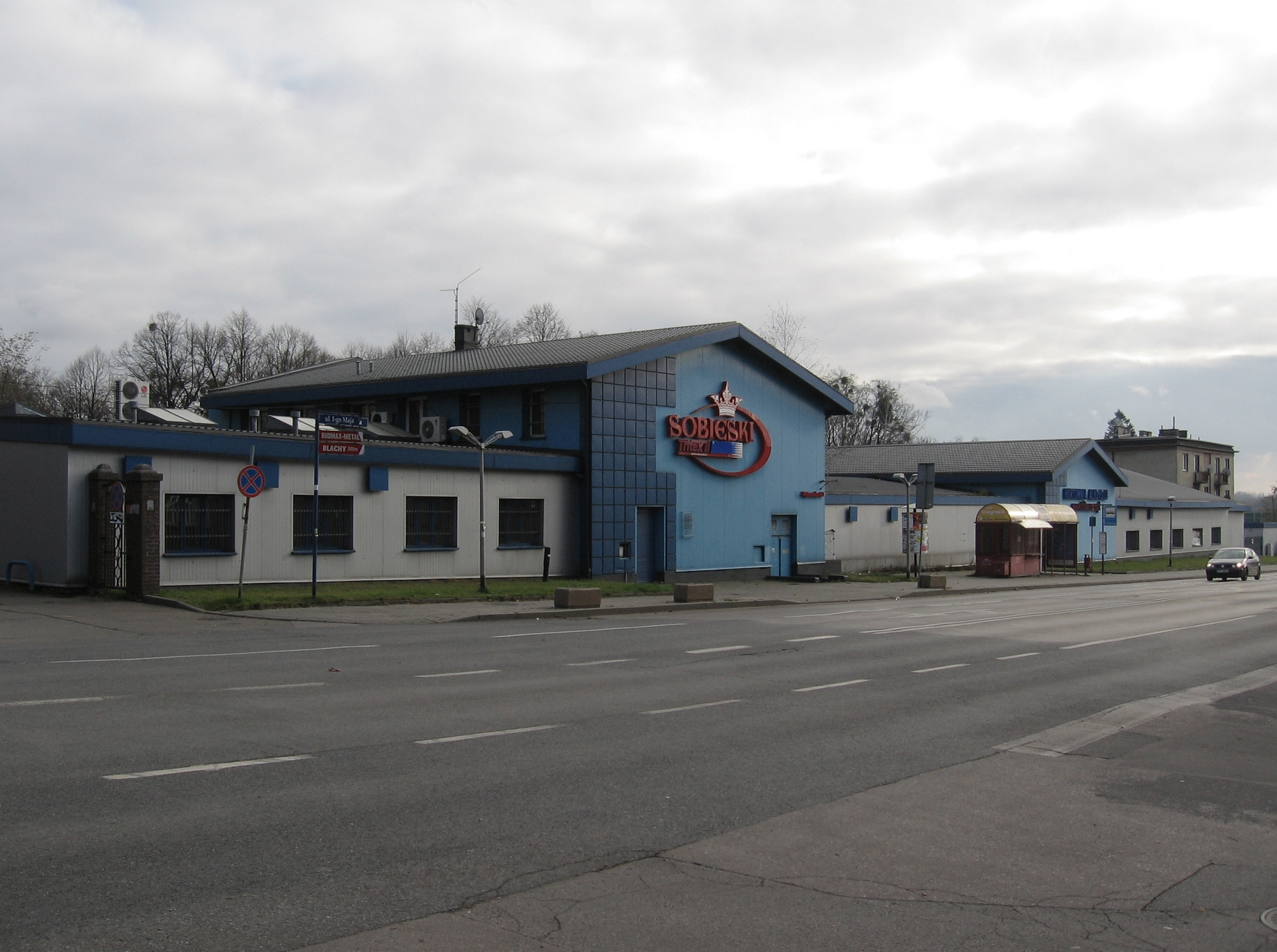 Tritex II liquor wholesaler in Piekary Śląskie, formerly buildings above Żwirki and Wigury shafts of Waryński mine (originally Schmidt I and II) in Piekary Śląskie-Szarlej, Bytomska 60 street (information from: Przemysław Nadolski: Szarlejskie Towarzystwo Budowli Podziemnych. In: Encyklopedia Piekar Śląskich: Brzeziny Śląskie, Brzozowice, Dąbrówka Wielka, Kamień, Kozłowa Góra, Piekary (Niemieckie, Wielkie, Śląskie), Szarlej. Grzegorz Grzegorek, Marzena Wzientek, Beata Witaszczyk (red.). Katowice: Prasa i Książka Grzegorz Grzegorek, 2011, p. 421, series: Małe Encyklopedie Małych Ojczyzn. ISBN 9788393366538.)